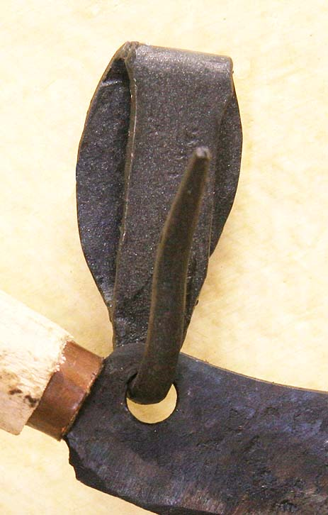 Holder (a belt hook through the blade) of a Kosir, a traditional vine knife from Istria, Croatia.